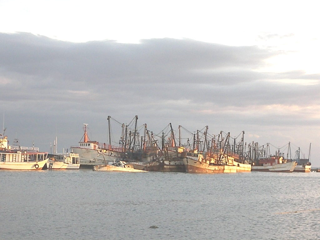 Fishing ships in Las Piedras.